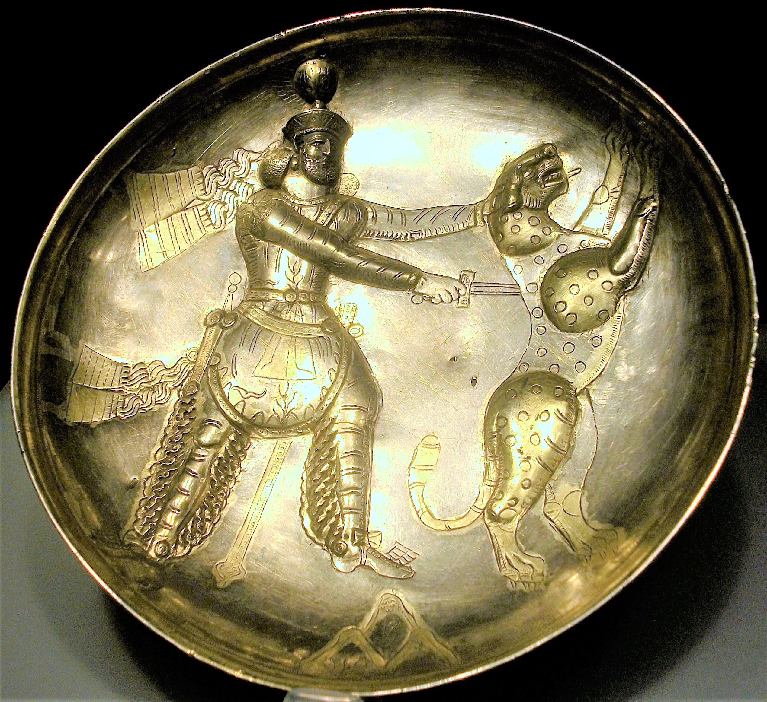 Plate of Shapur III killing a tiger.